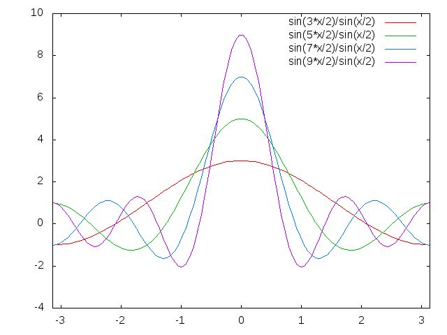 Plots of the first few Dirichlet kernels made with gnuplot. This function has a period of 2π